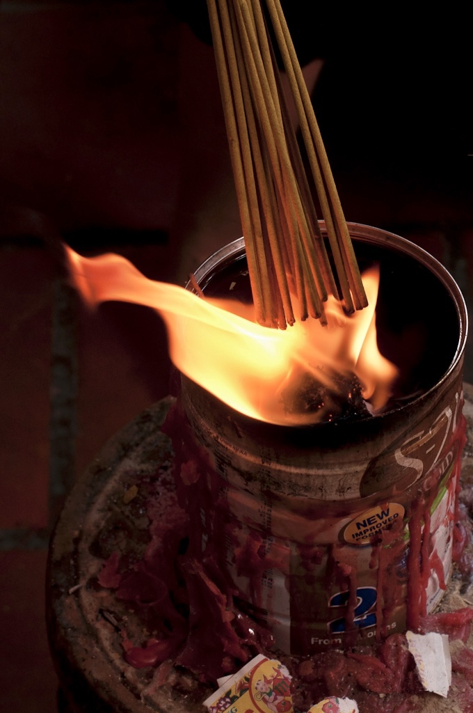 Tết, or Vietnamese New Year, is the most important celebration of Vietnamese culture. The word is a shortened form of Tết Nguyên Đán. It features aspects of the western Thanksgiving, New Year’s Day, Halloween and Birthday. It is the Vietnamese New Year marking the arrival of spring based on the Chinese calendar, a lunisolar calendar.The name Tết Nguyên Đán is Sino-Vietnamese for Feast of the First Morning of the first day. The actual day of Tet is determined by the Lunar Calendar which counts approximately 365 days in a year, hence Tet usually falls between the western calendar months of January or February. (Source: Wikipedia)